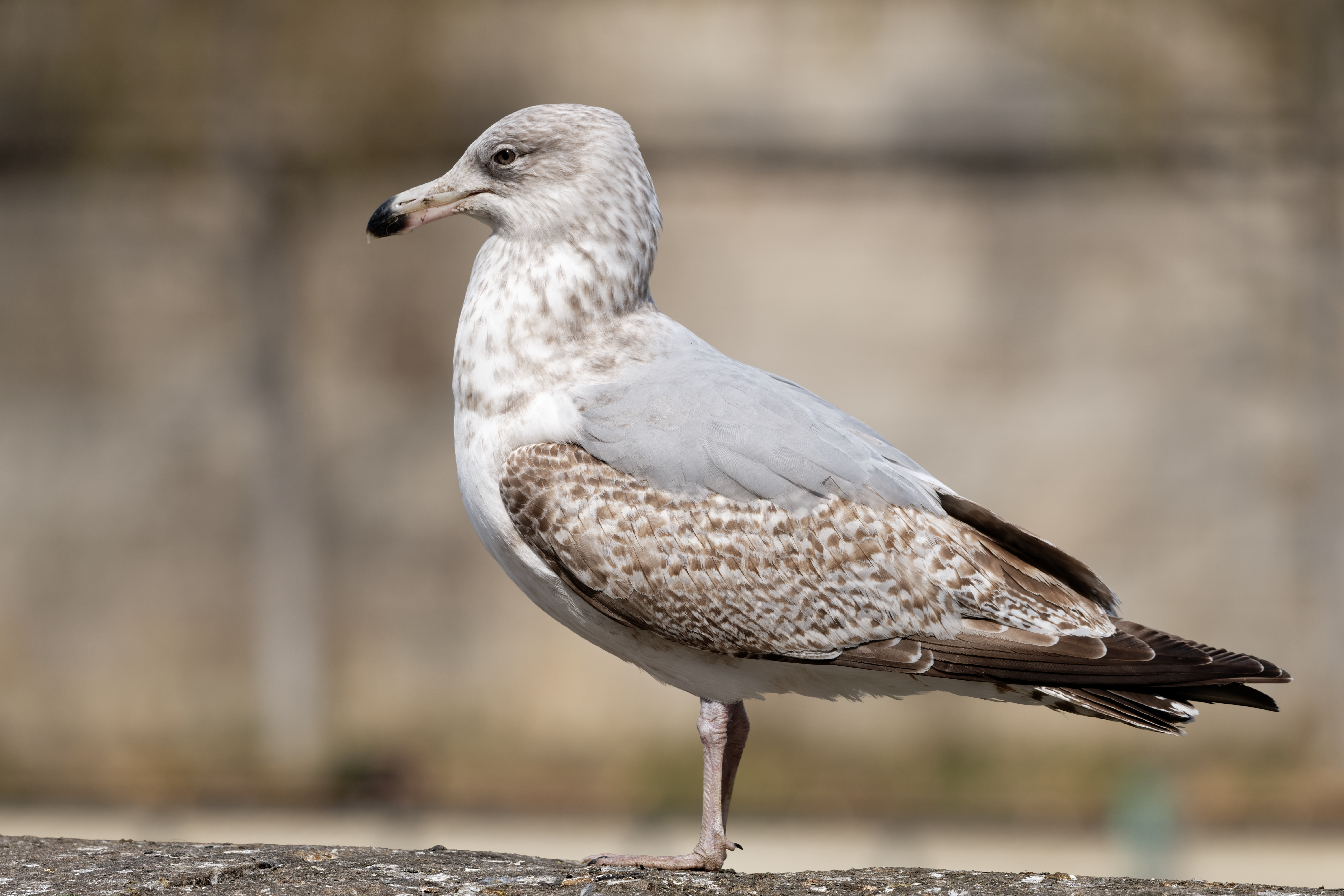 Third-winter Herring gull (Larus argentatus) along the Seine in Paris.